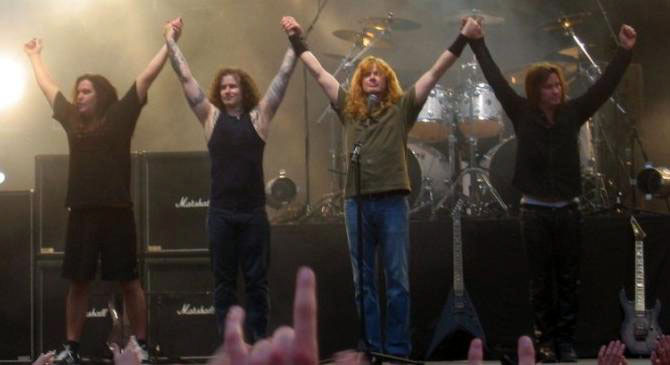 Megadeth at Sauna Open Air Metal Festival in Tampere. Left to right: Shawn Drover, James MacDonough, Dave Mustaine, Glen Drover.